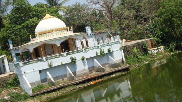 KADAM-RASUL_CUTTACK